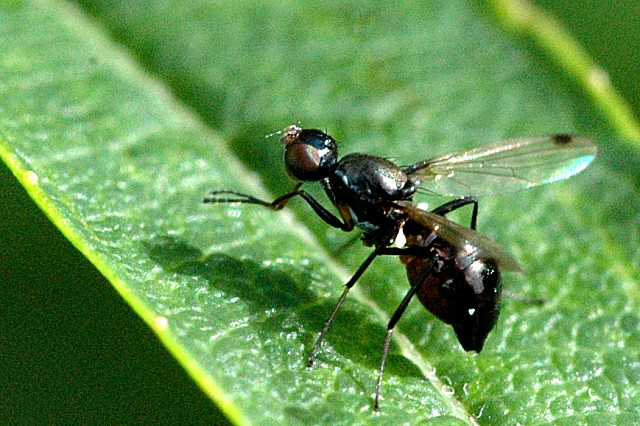 Picture taken in Commanster, Belgian High Ardennes . Species: female Sepsis fulgens